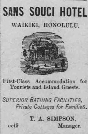 A beachfront resort that opened in 1884, the Sans Souci Hotel offered private cottages for families and bathing facilities. It gained some fame, after it hosted writer Robert Louis Stevenson, who wrote about staying there for five weeks in 1893 and did some of his best literary works there. He wrote in the guest book: "If anyone desires such old-fashioned things as lovely scenery, quiet, pure air, clean sea water, good food, and heavenly sunsets hung out before their eyes over the Pacific and the distant hills of Waianae, I recommend him cordially to the Sans Souci." With "Sans Souci" meaning "without a care" in French, the Sans Souci Hotel was also where conspirators against the Provisional Government met to discuss restoring the Hawaiian Monarchy. The hotel owner, George Lycurgus, supported the Hawaiian Monarchy. The Sans Souci Hotel went out of business years ago, and the New Otani Kaimana Beach Hotel is currently in its place. However, the ancient hau trees that Robert Louis Stevenson sat under are still there, now providing shade to the guests at the Hau Tree Lanai restaurant, and many people still call the nearby beach Sans Souci Beach. Ad text: "Sans Souci Hotel Waikiki, Honolulu. First-Class Accommodation for Tourists and Island Guests. Superior Bathing Facilities. Private Cottages for Families. T. A. Simpson, Manager. cct9" Hawaii holomua = Progress, November 15, 1893, Image 3 Read about the Sans Souci Hotel and Hawaii Holomua's roles in the Hawaii counter-revolution: From the University of Hawaii at Manoa Library